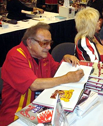 George Barris, King of the Kustomizers, at the 2008 SEMA Show in Las Vegas.